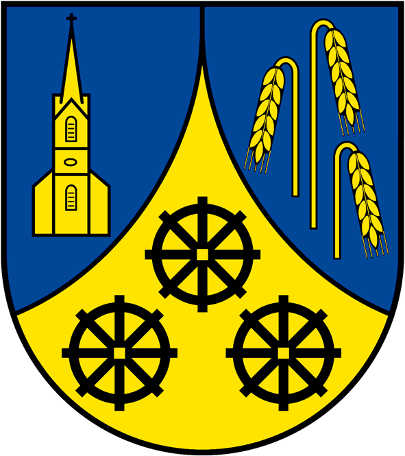 Coat of arms of Todenroth